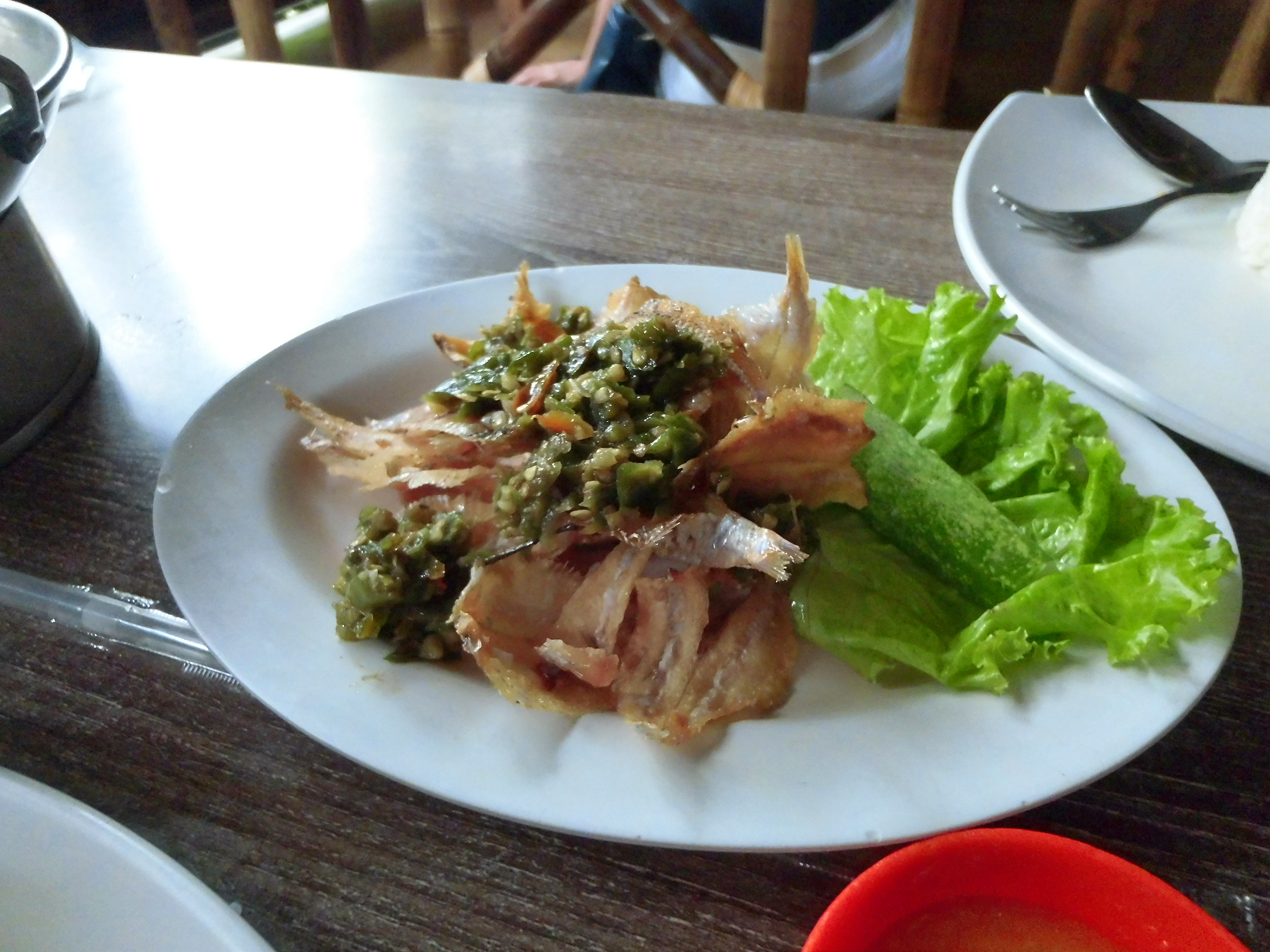 Ikan Asin Cabe Ijo, Indonesian salted fish with green chili. Served in Saoenk Kito restaurant in Grogol, West Jakarta, Indonesia.